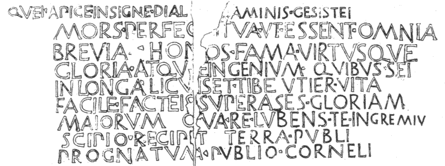 inscription from Scipio's grave, rome (check the letters on this map)